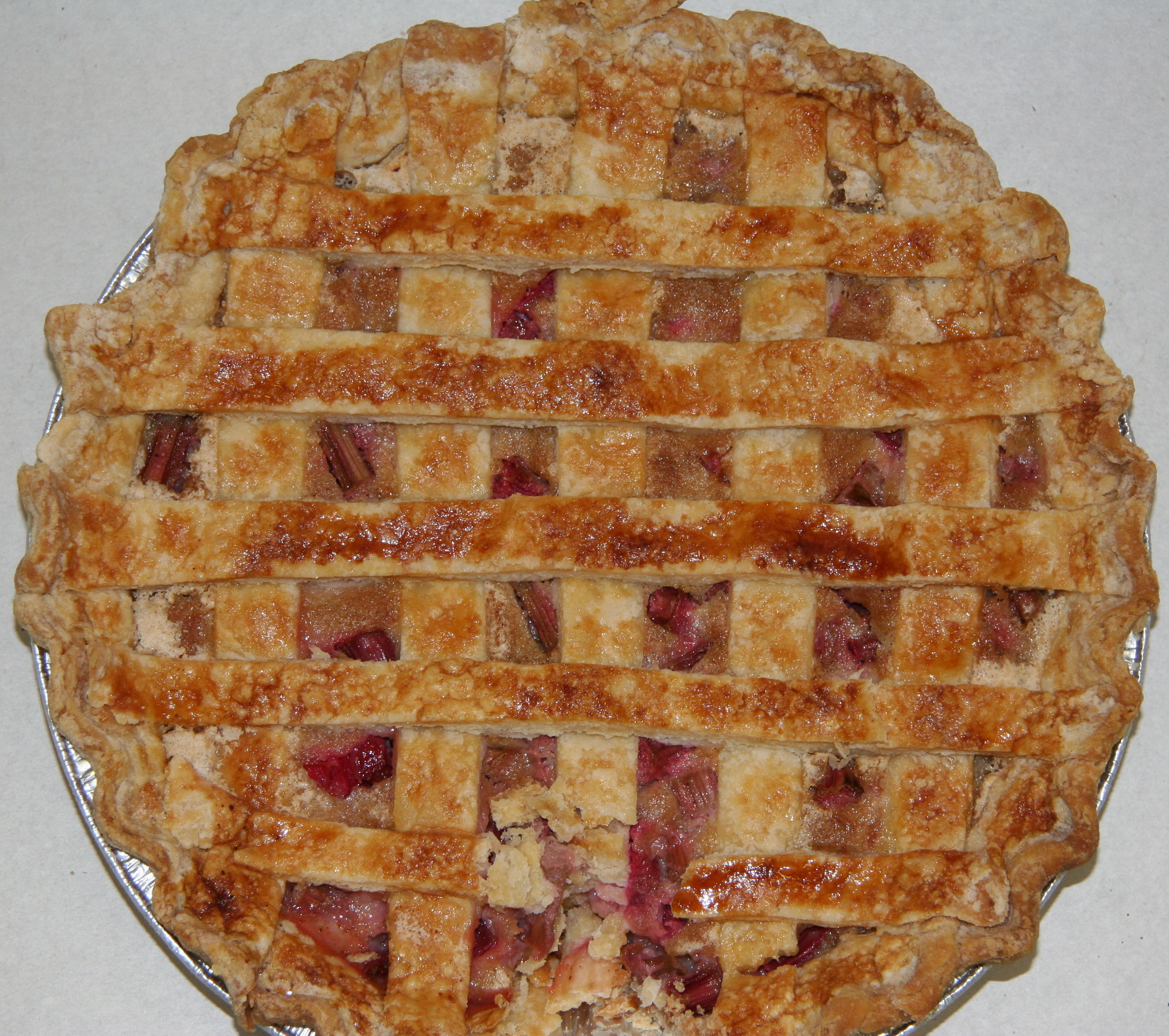 Homemade rhubarb pie with lattice crust